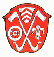 Coat of Arms of Sulzbach am Main